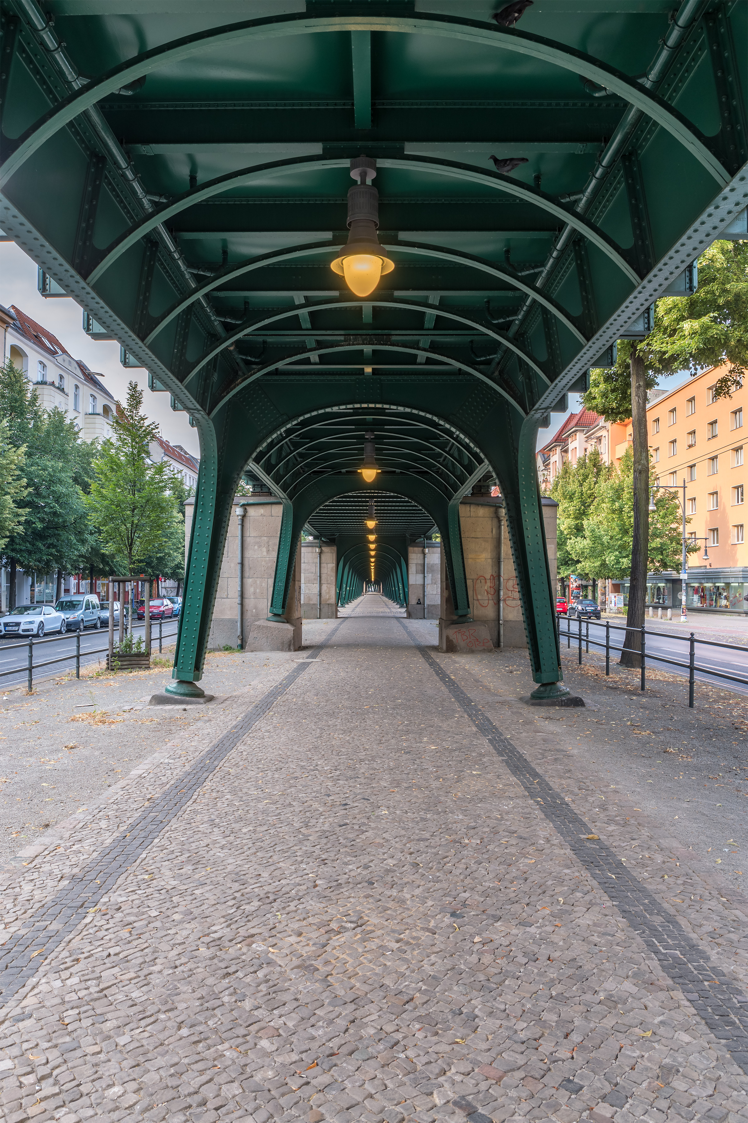 The viaduct of the metro line 2 at Schönhauser Allee in Berlin-Prenzlauer Berg. It is also being called "Magistratsschirm".